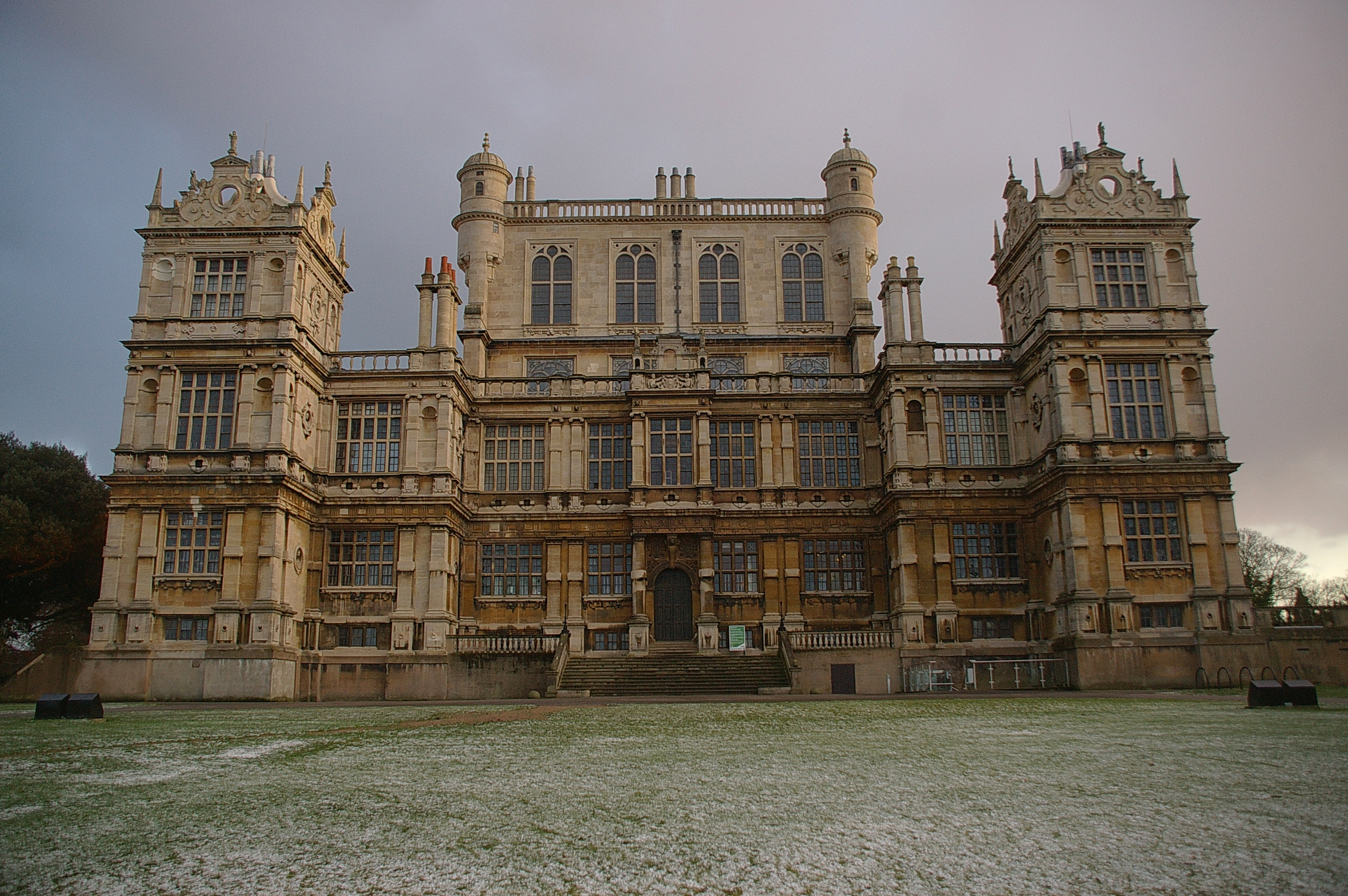 Wollaton Hall in the first snowfall of the winter.